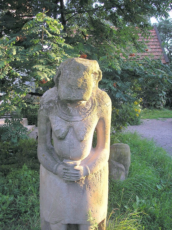 Stone image. Village Prelesne. Ukraine. Donetsk region.